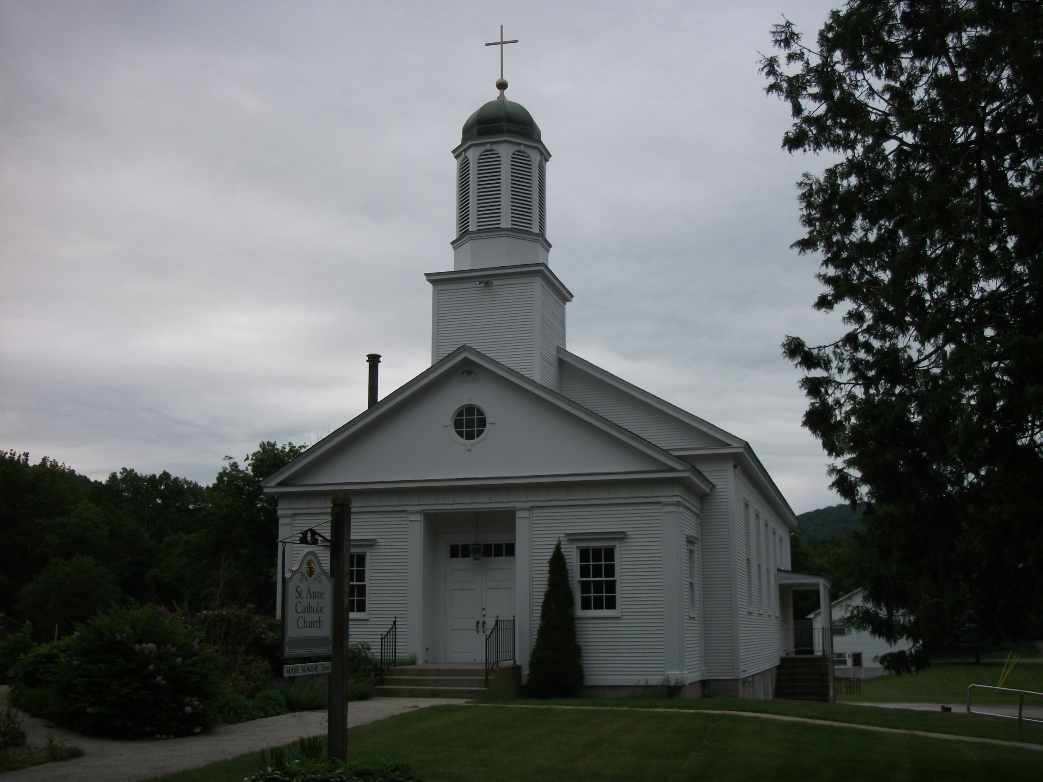 Church in Middletown Springs, Vermont